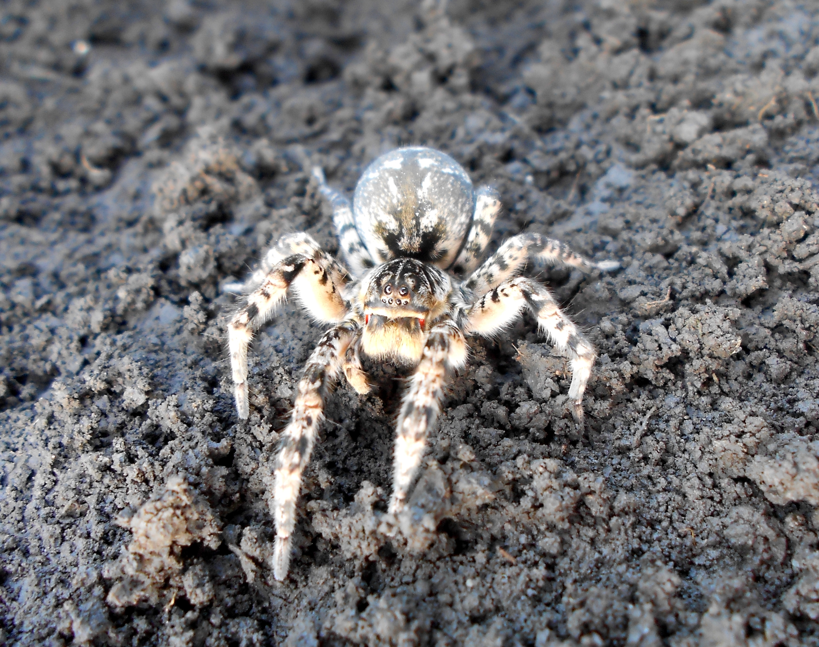 Lycosa singoriensis (Araneae:Lycosidae) from Moldova